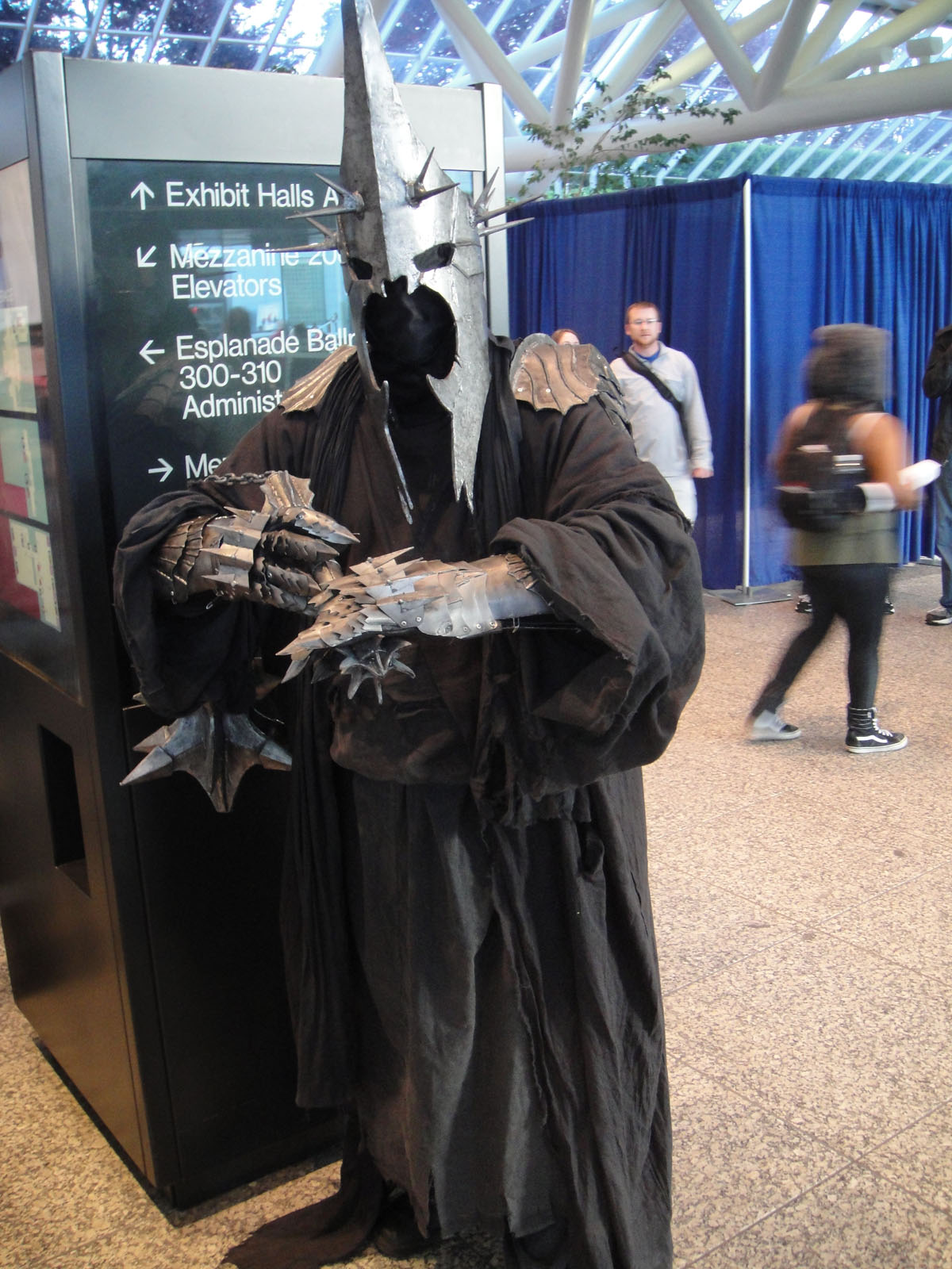 WonderCon 2011 - Witch King of Angmar from Lord of the Rings